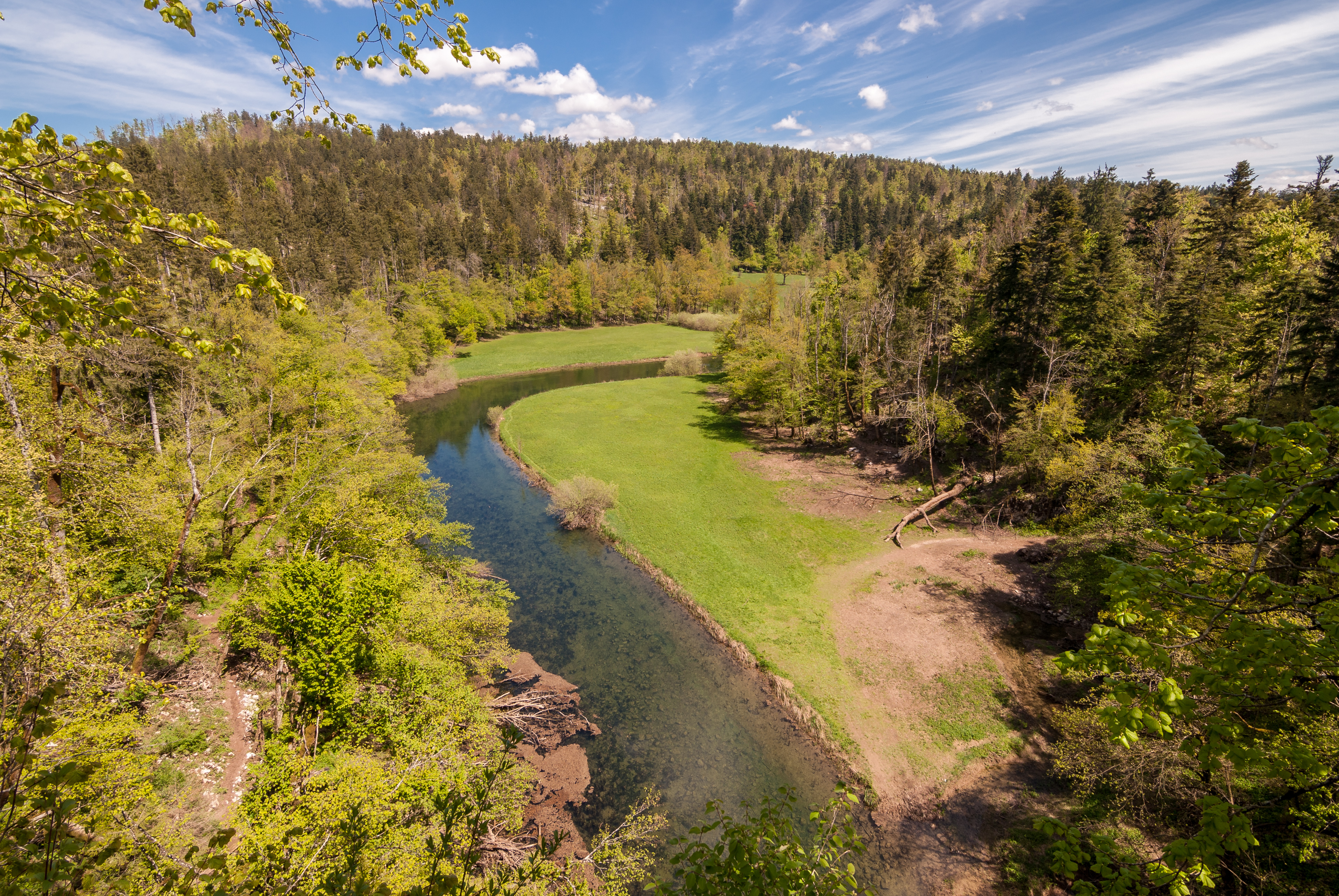 River Rak in Rakov Škocjan natural park